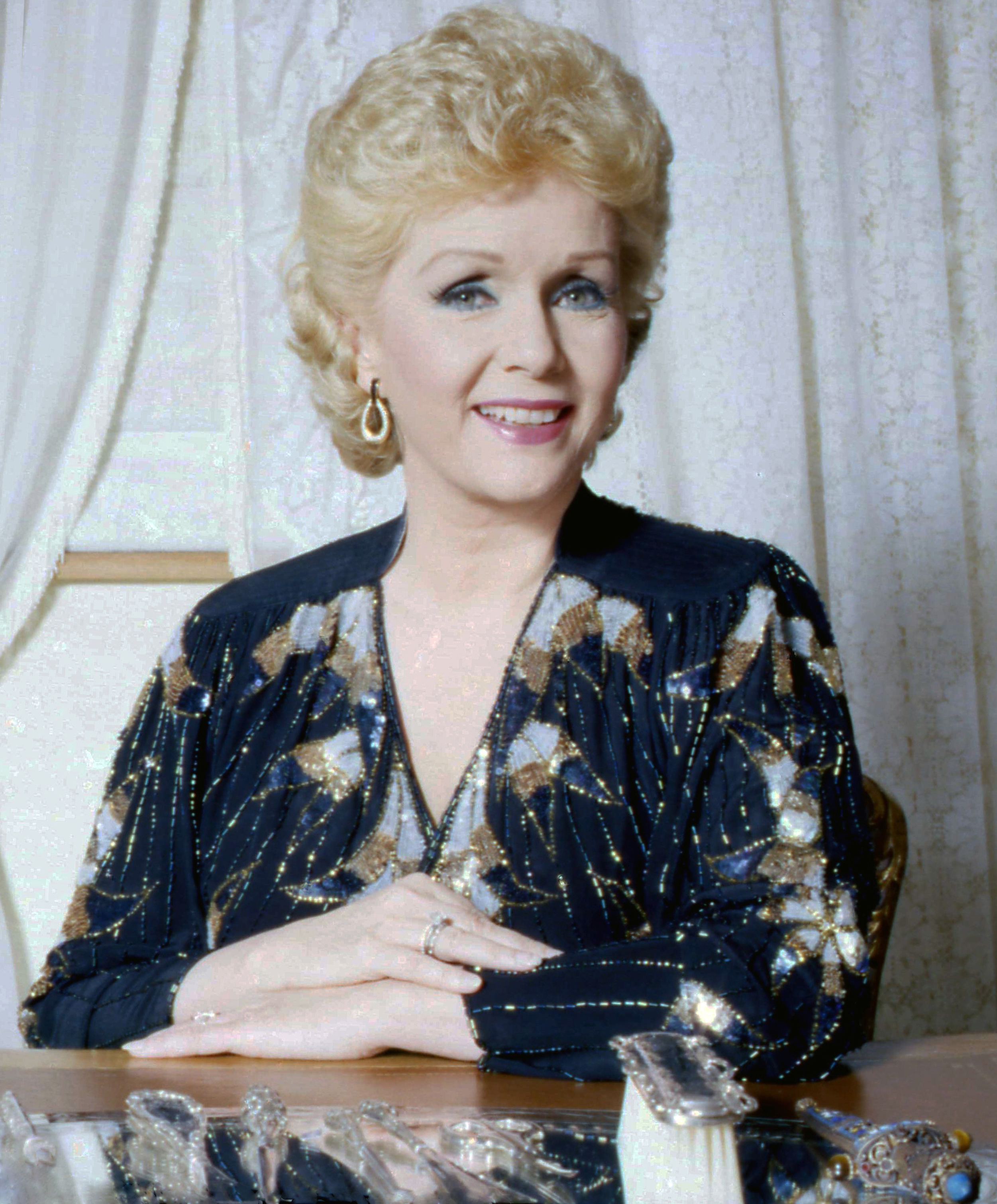 higher resolution